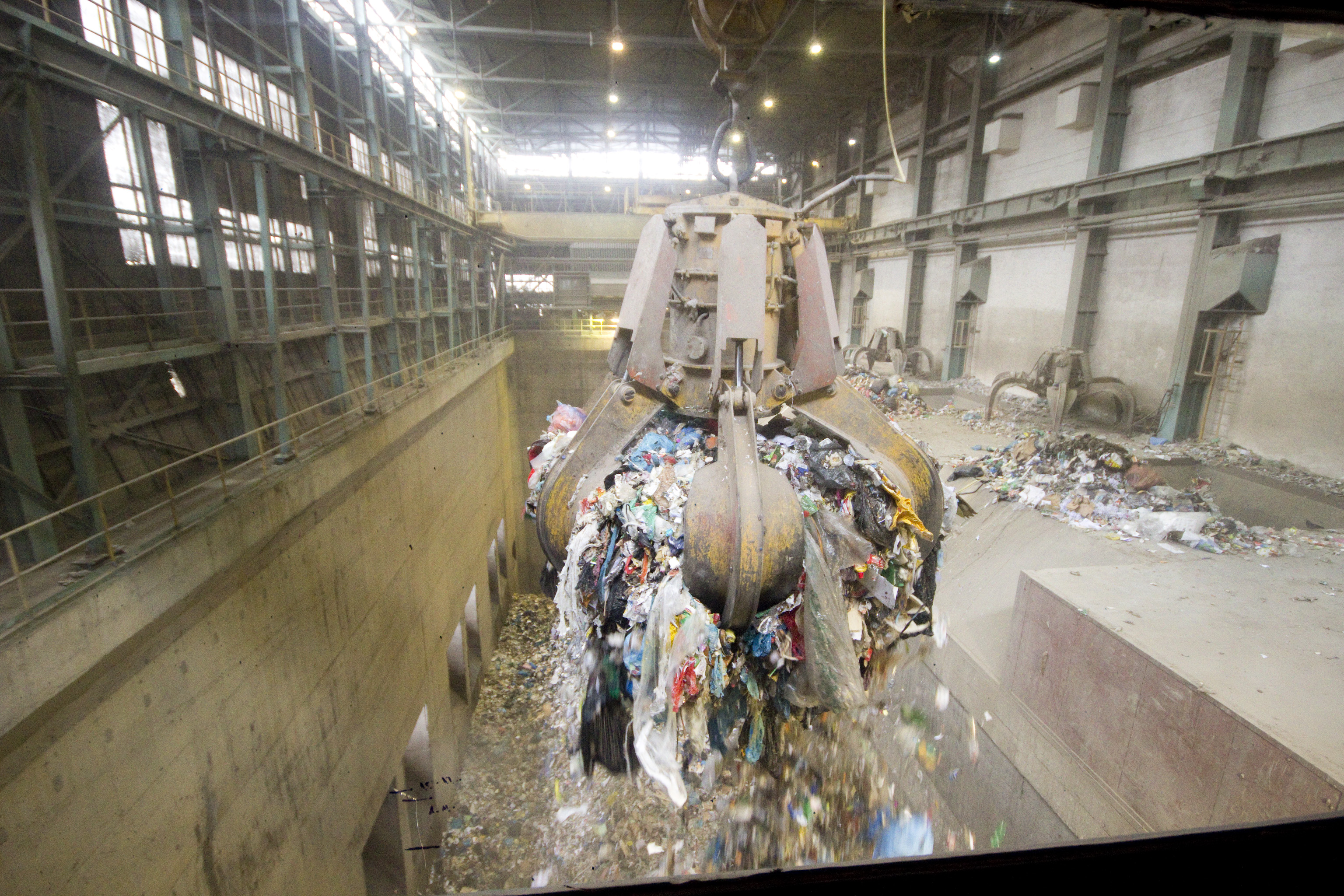 Malešice incinerator, Prague Tato série fotografií vznikla za laskavého svolení společnosti Pražské služby